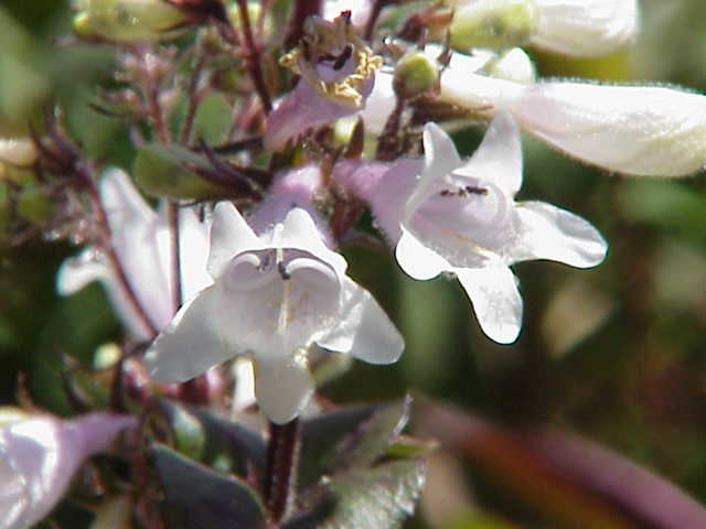 Species: Penstemon digitalis Family: Plantaginaceae Image No. 1